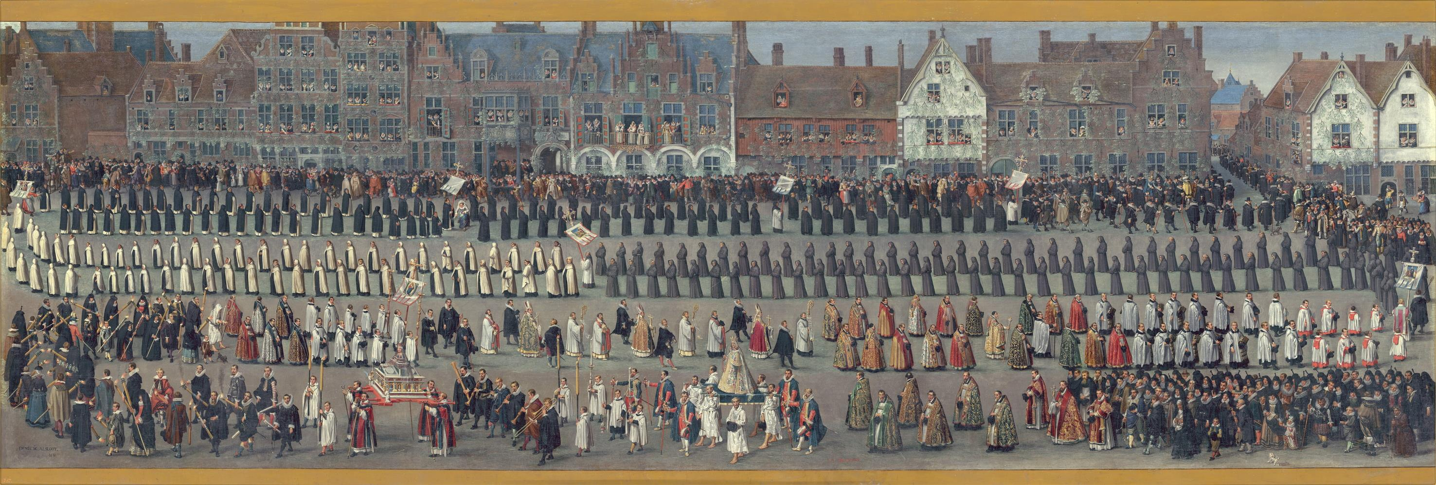 This is the procession of Our Lady of Sablon from the Ommeganck (Ommegang) in Brussels on 31 May 1615. It is one of a series of six paintings by Denis van Alsloot commemorating the event, which was also a triumphal pageant for Archduchess Isabella.